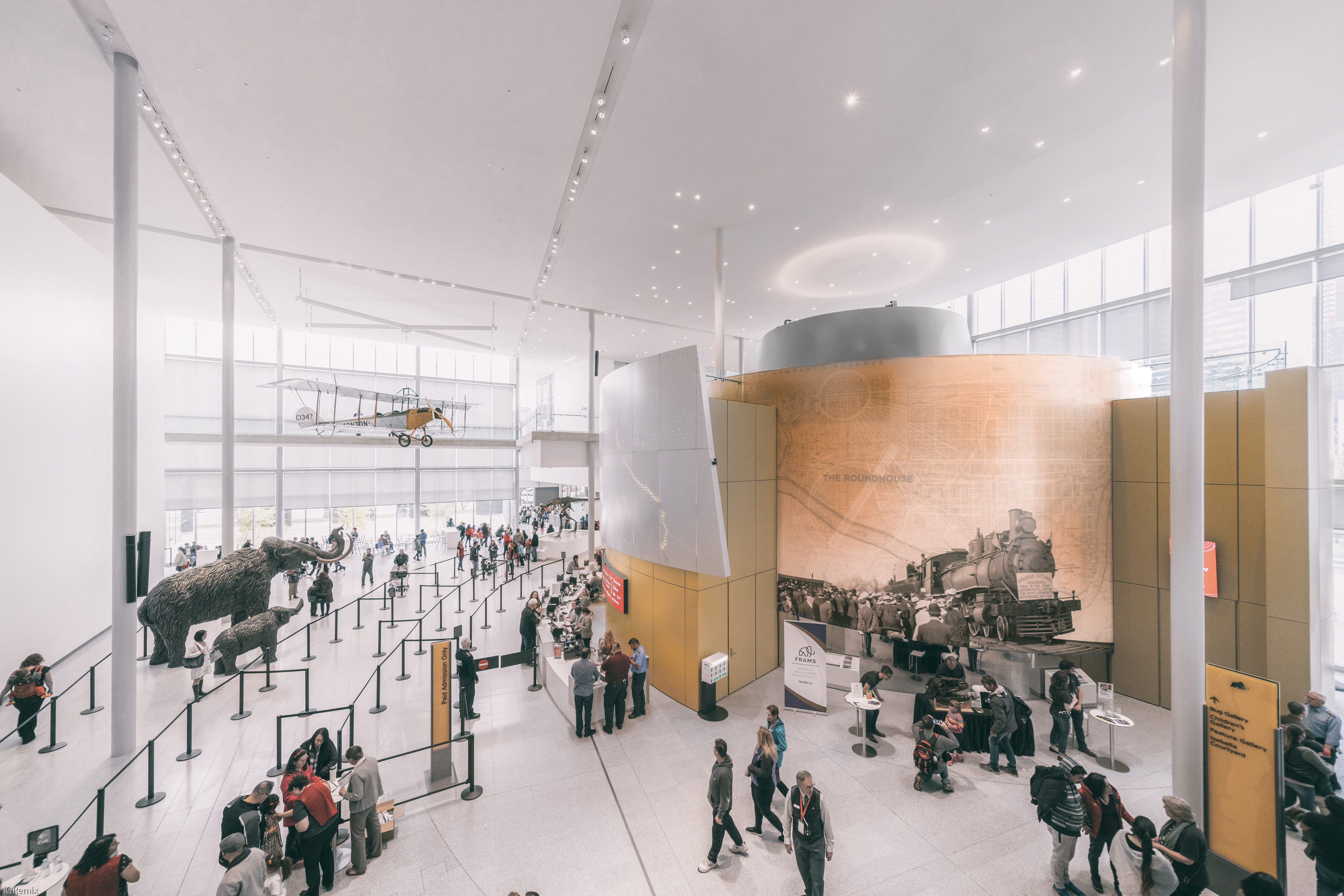 Interior entrance lobby to the new Royal Alberta Museum